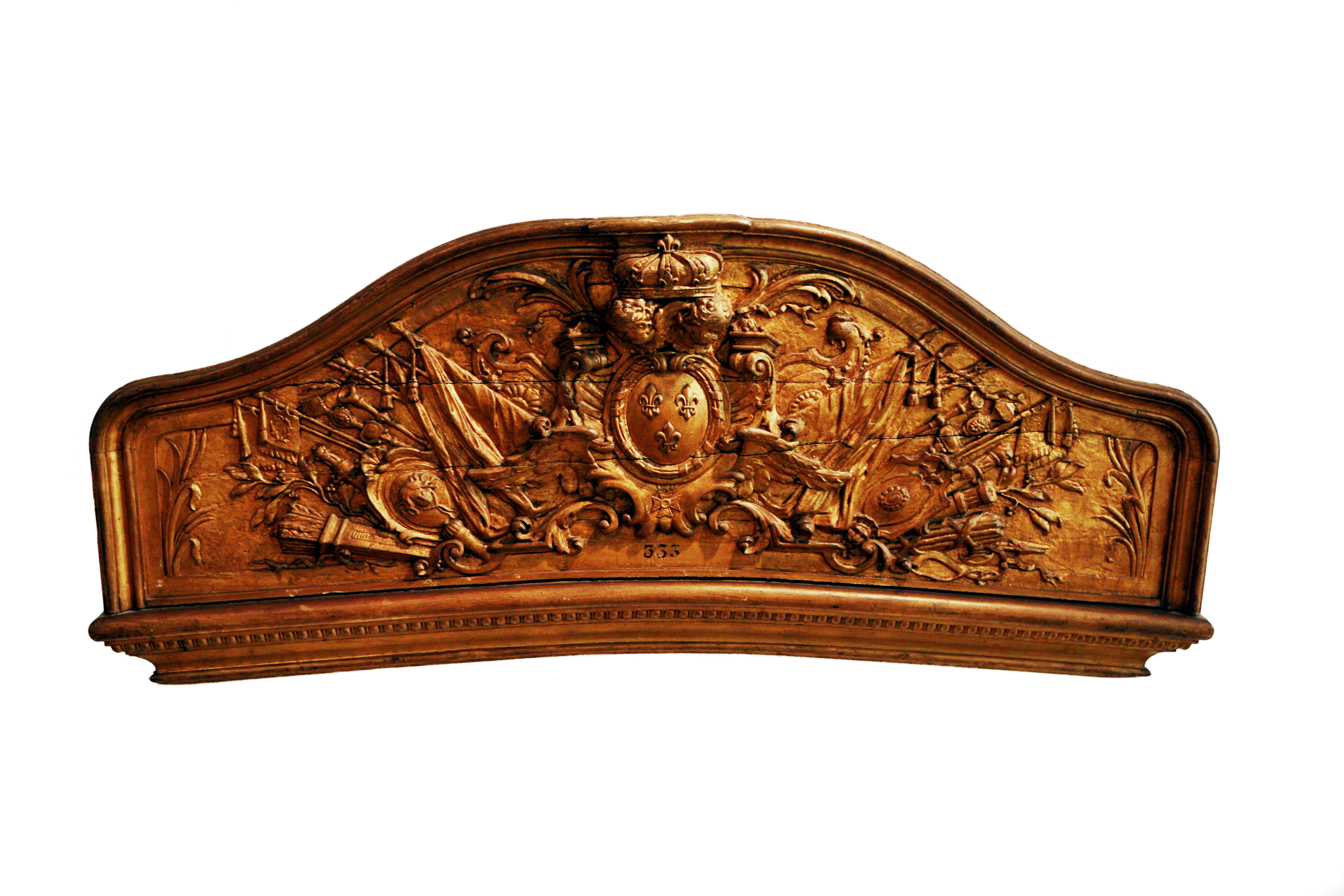 Decorative aft pannel of French ship of the line Souverain On display at Toulon naval museum. Access number 41 OA 164.